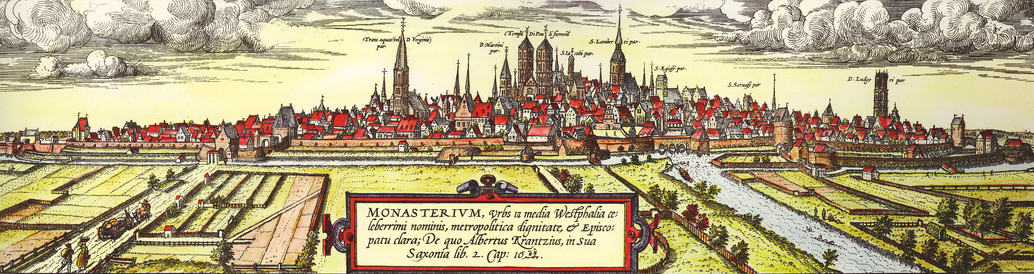 Historical view of the German town of Münster by Georg Braun and Frans Hogenberg (between 1572 and 1618). Big churches seen on the picture (from left to right): Liebfrauenkirche (Überwasserkirche), St. Pauls-Cathedral (in the center), Lambertikirche, Ludgerikirche. In the center in front of the cathedral the "Neuwerk" as part of the citywall where the river Aa crosses the city border.